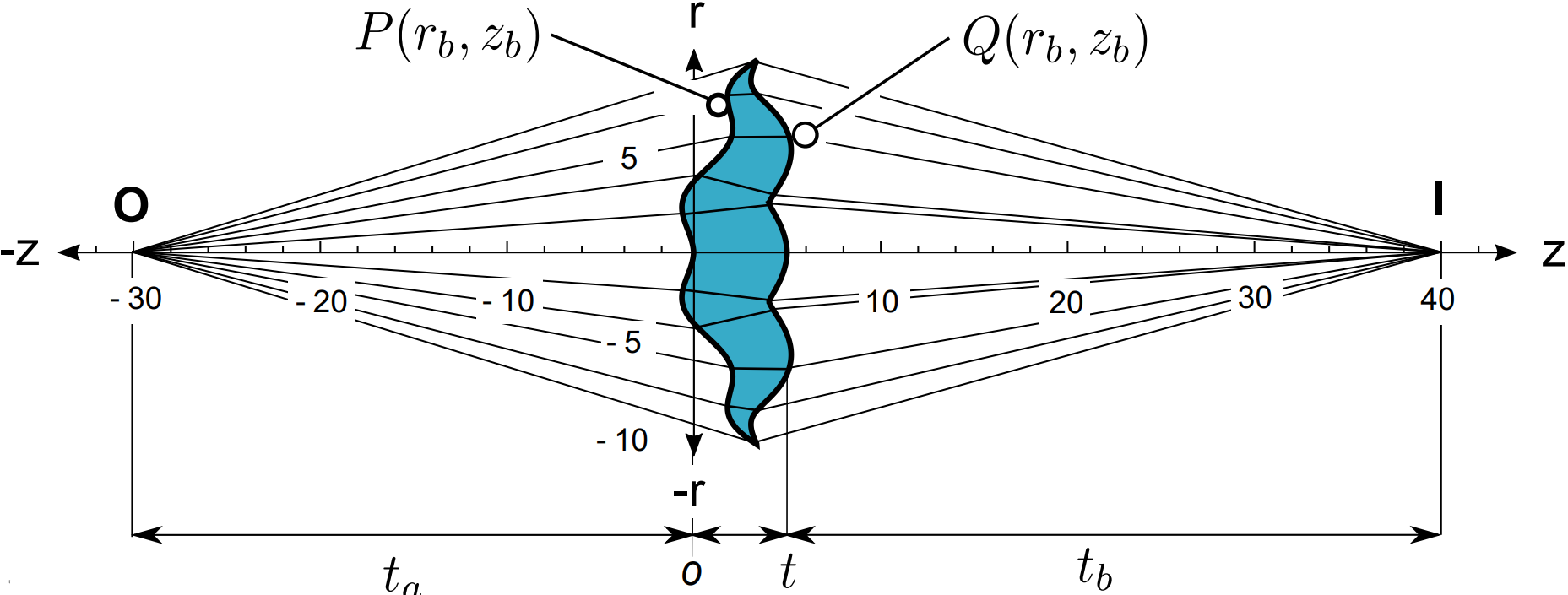 Acuña Romo lens, regarding spherical aberration and the Ecuación de Acuña-Romo